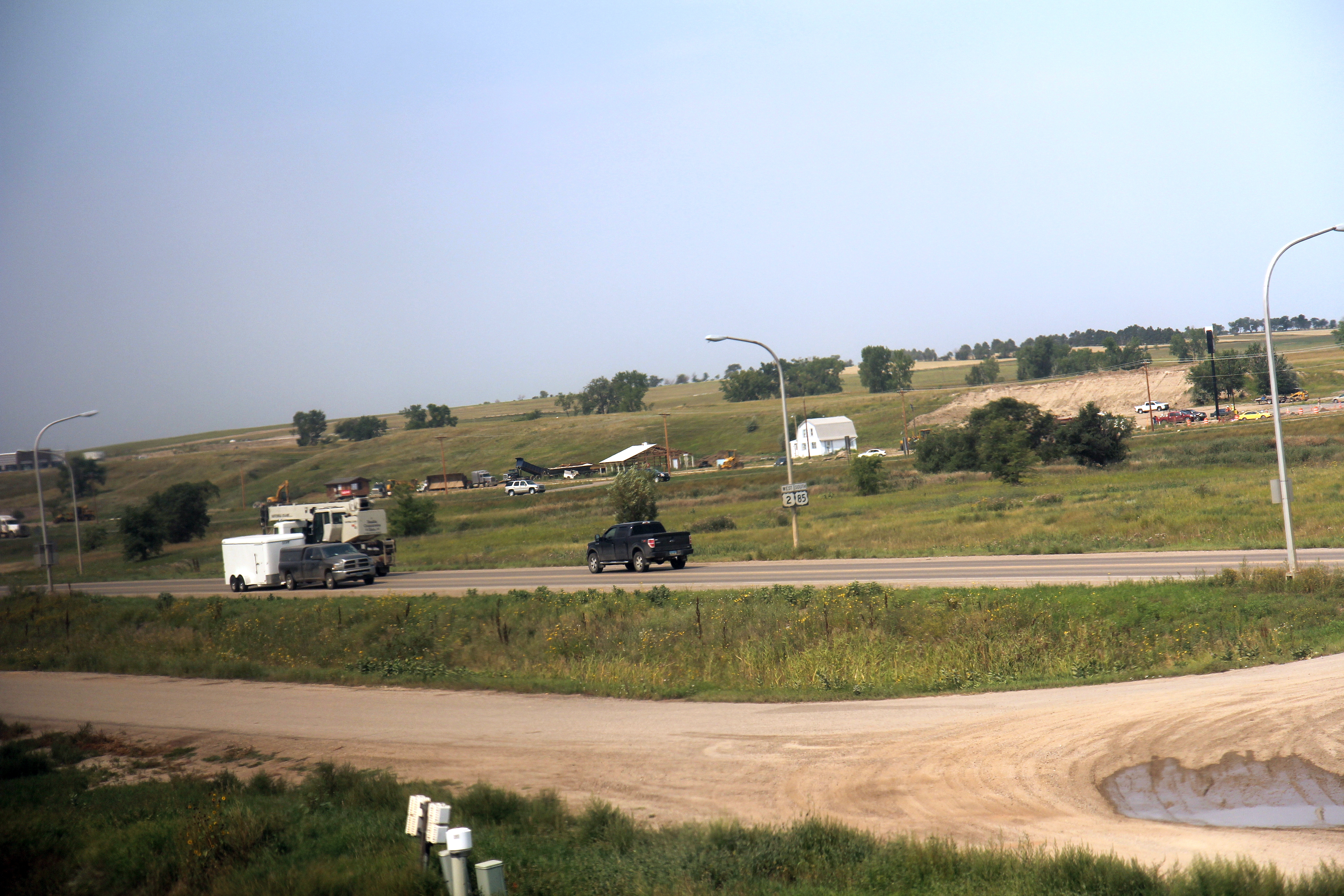 U.S. Route 2 / U.S. Route 85 on the outskirts of Williston, North Dakota.